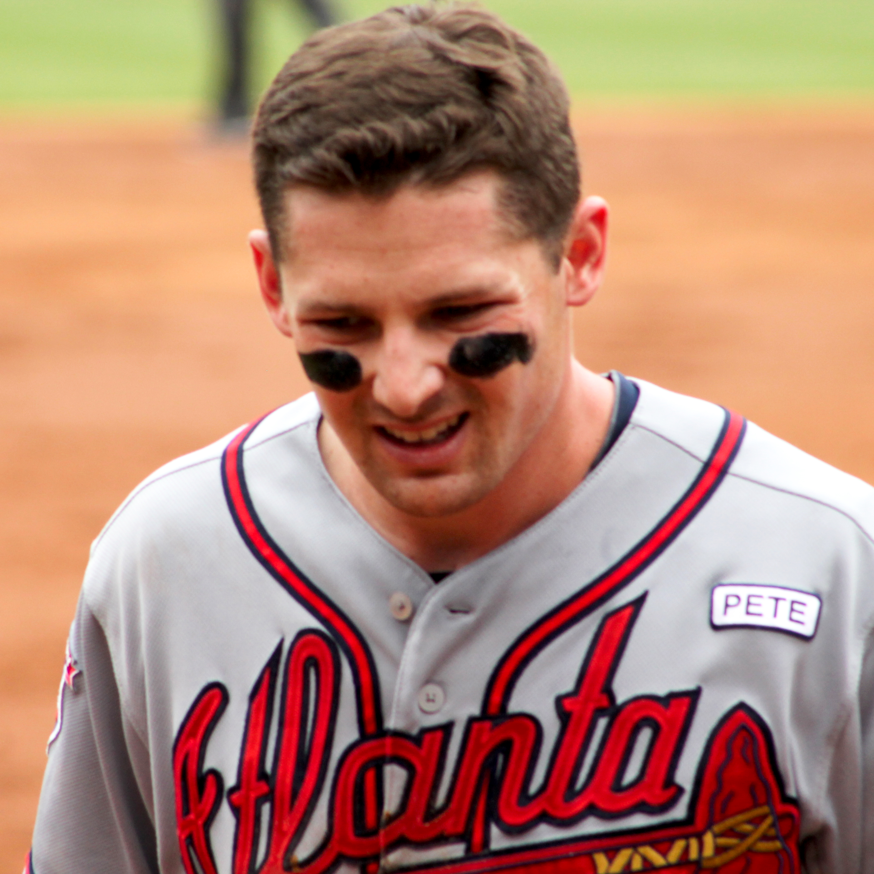 Professional baseball player Philip Gosselin plays a September 2014 game in Texas.